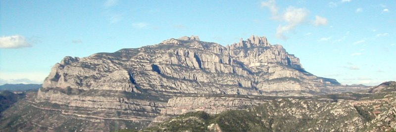 Mountain of Montserrat panoramic view, Barcelona, Catalonia.